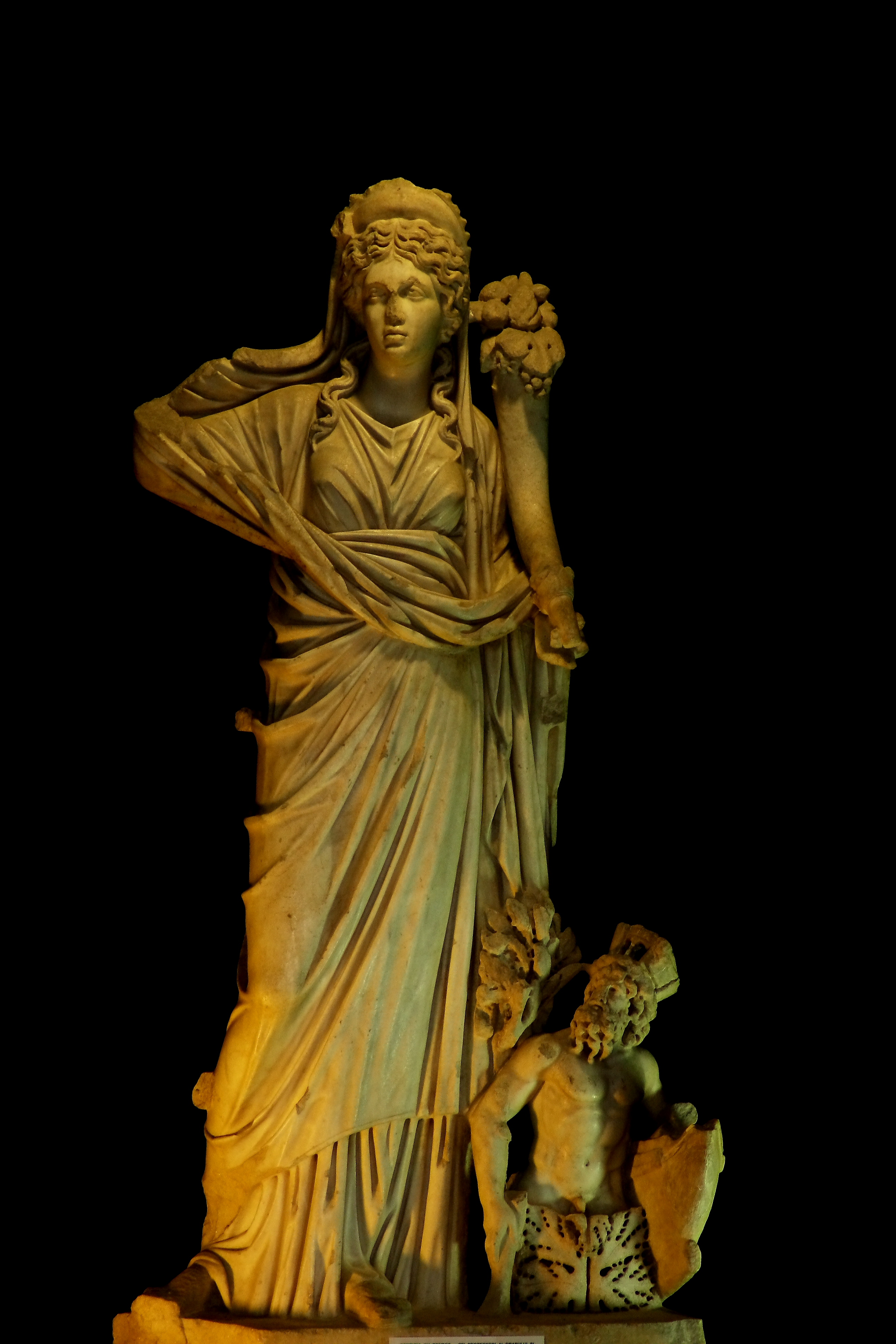 Depiction of Tomis Fortuna, Constanta Museum